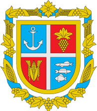 Coat of Arms of Reni Raion, Odessa Oblast, Ukraine